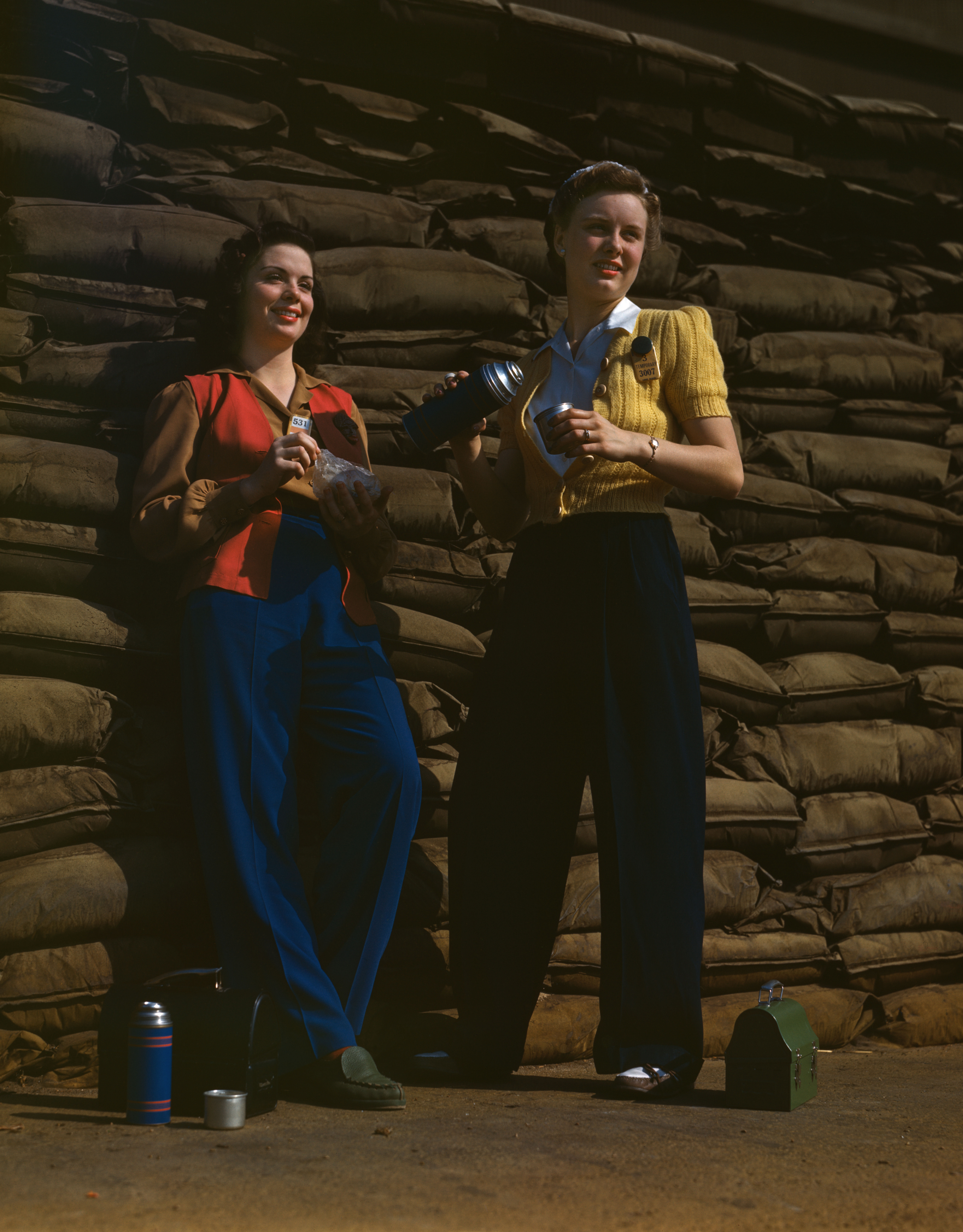 Lunchtime brings a few minutes of rest for these women workers of the assembly line at Douglas Aircraft Company's plant, Long Beach, Calif. *Sand bags for protection against air raid form the background.